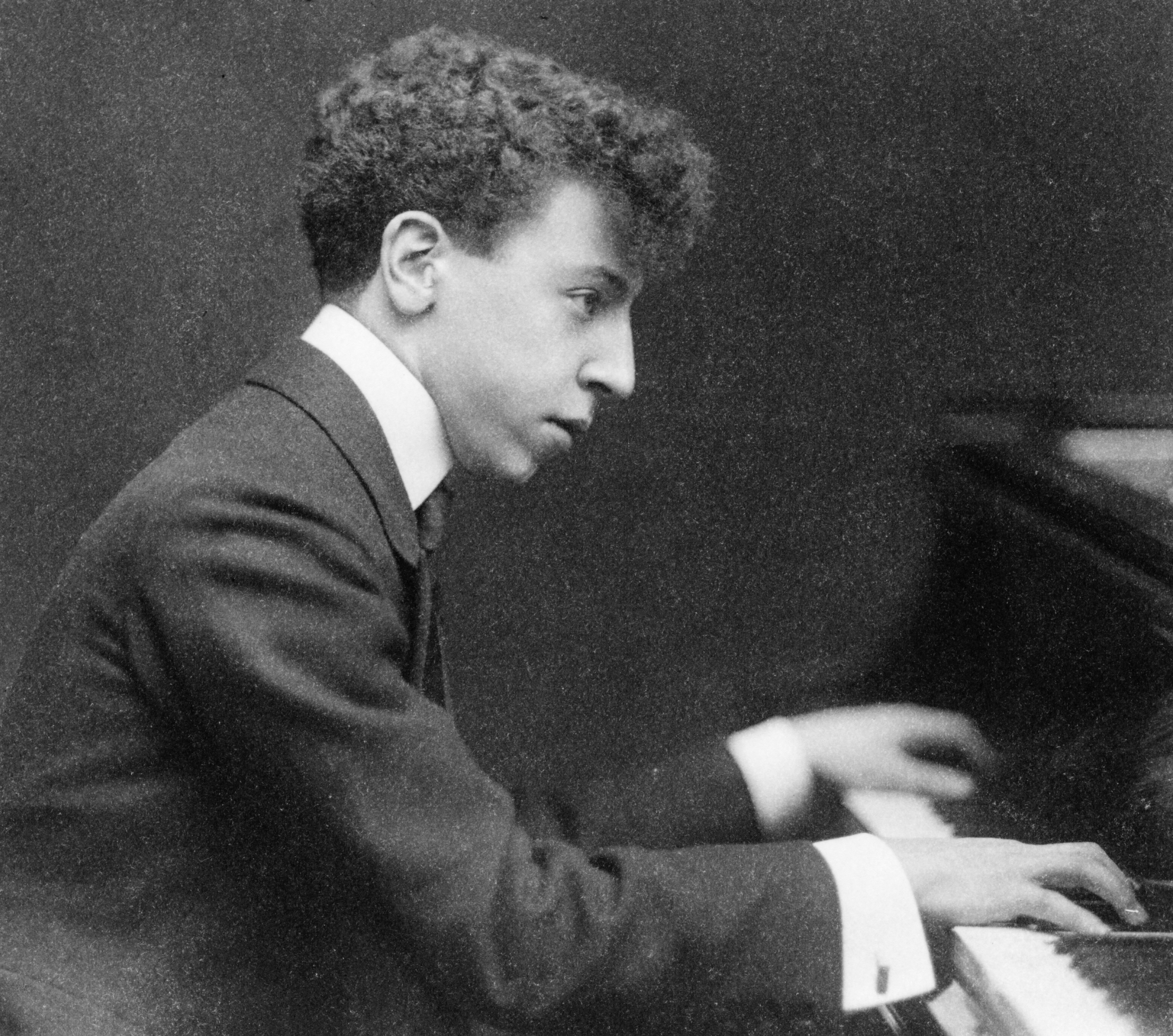 Arthur Rubinstein, half-length portrait, seated at piano, facing right.